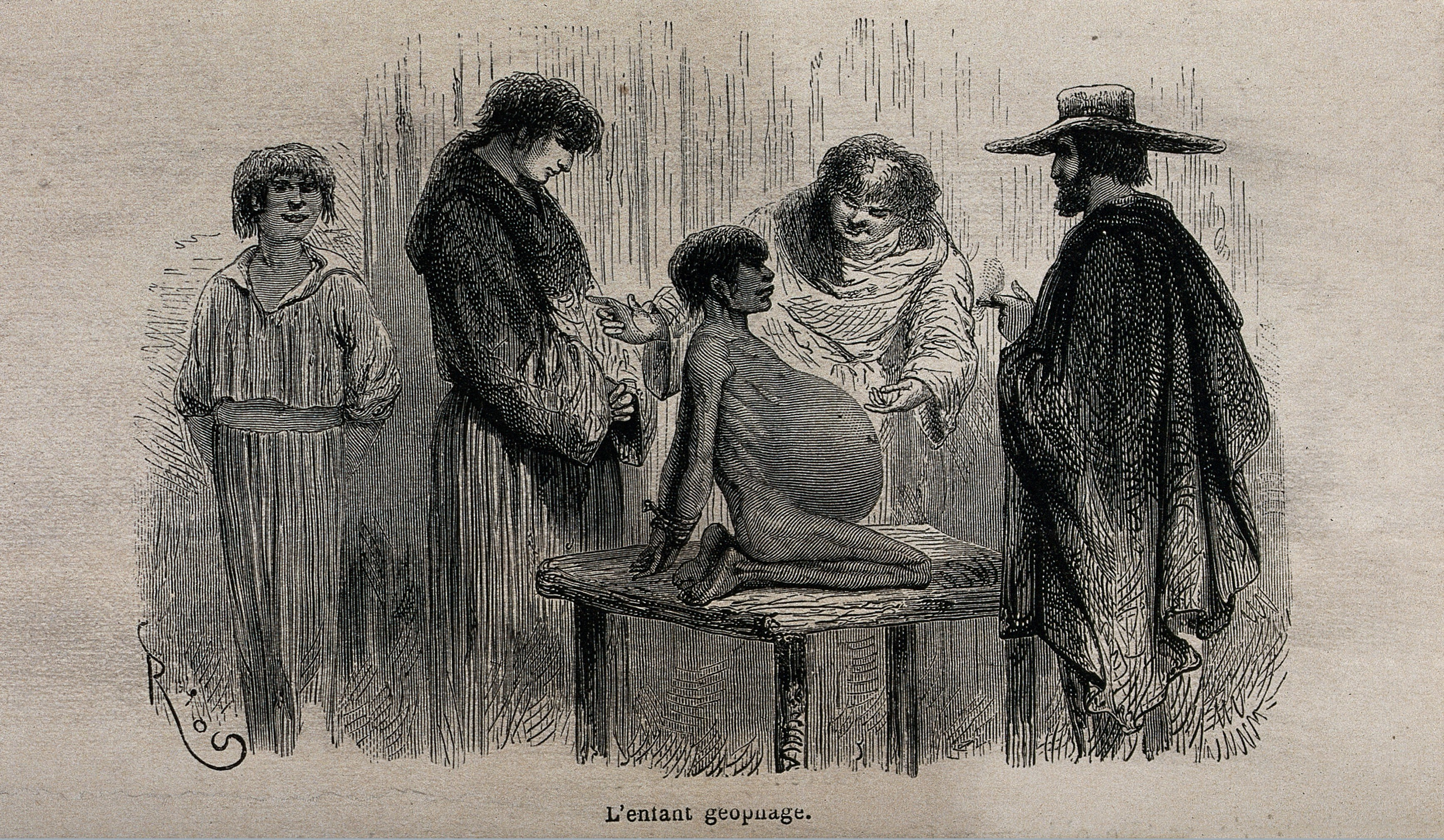 Friars at Pevas (Pebas, Pehuas), Peru, showing to Paul Marcoy a five-year old girl with a desire to eat earth (geophagia). Wood engraving by E. Riou, 186-. Credit: Wellcome Library, London, reference no. 571257i